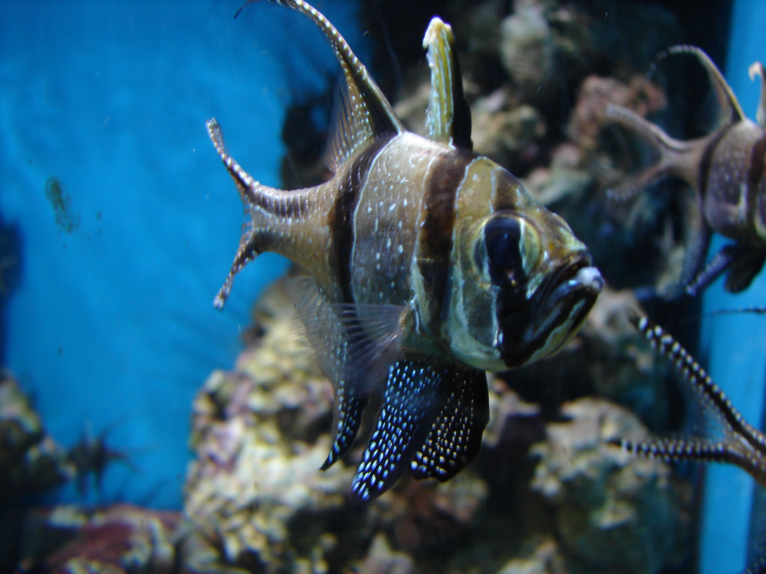 Images from London Zoo. Location: NW1 4RY